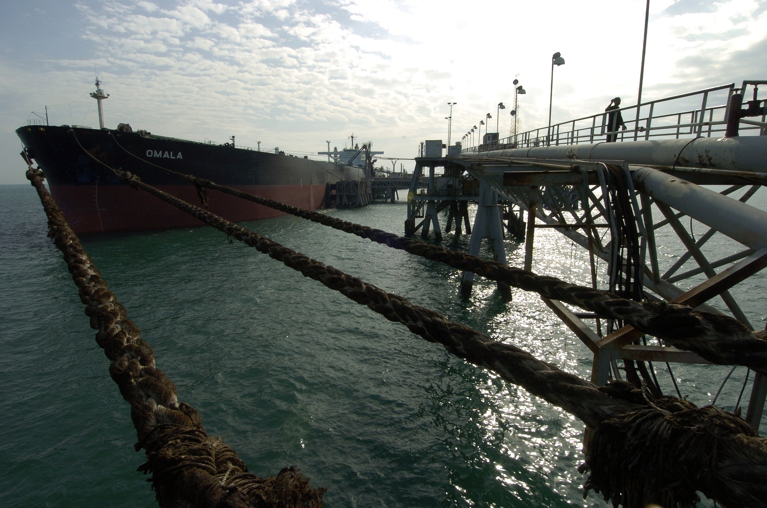 Persian Gulf (Dec. 07, 2004) – The oil tanker Omala is one of hundreds of oil tankers from around the world that receives its payload from Iraq’s Al Basrah Oil Terminal (ABOT). Coalition forces recovered both ABOT and Khawr Al Amaya Oil Terminal (KAAOT) during the first phase of Operation Iraqi Freedom last year. The terminals have since generated billions of dollars in revenue for the Iraqi people. Mobile Security Force Detachment Two Two (MSD-22) is currently stationed aboard the terminal as part of a joint effort between United States and coalition forces to provide security against terrorist attacks on the Iraqi oil platforms. U.S. Navy photo by Photographer's Mate 1st Class Richard J. Brunson (RELEASED)